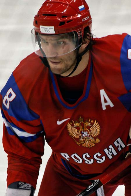 Russian mega superstar Alexander Ovechkin keeps his eye on the puck during a faceoff in the attacking zone. His two goals would help secure an 8 - 2 victory over Latvia.